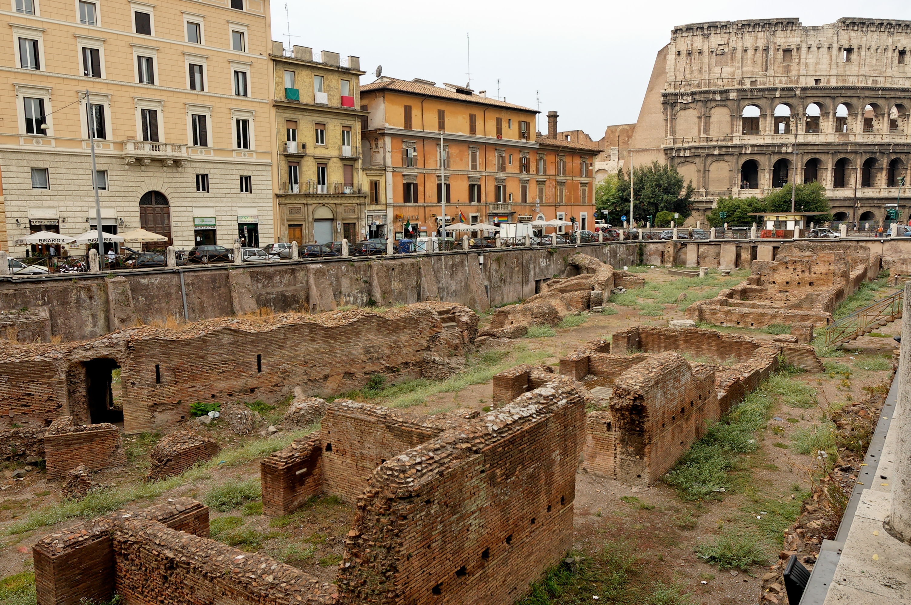 The Ludus magnus in Rome: barracks for gladiators built by Emperor Domitian (81–96 CE), view from Via Labicana. In the background, the Colosseum.